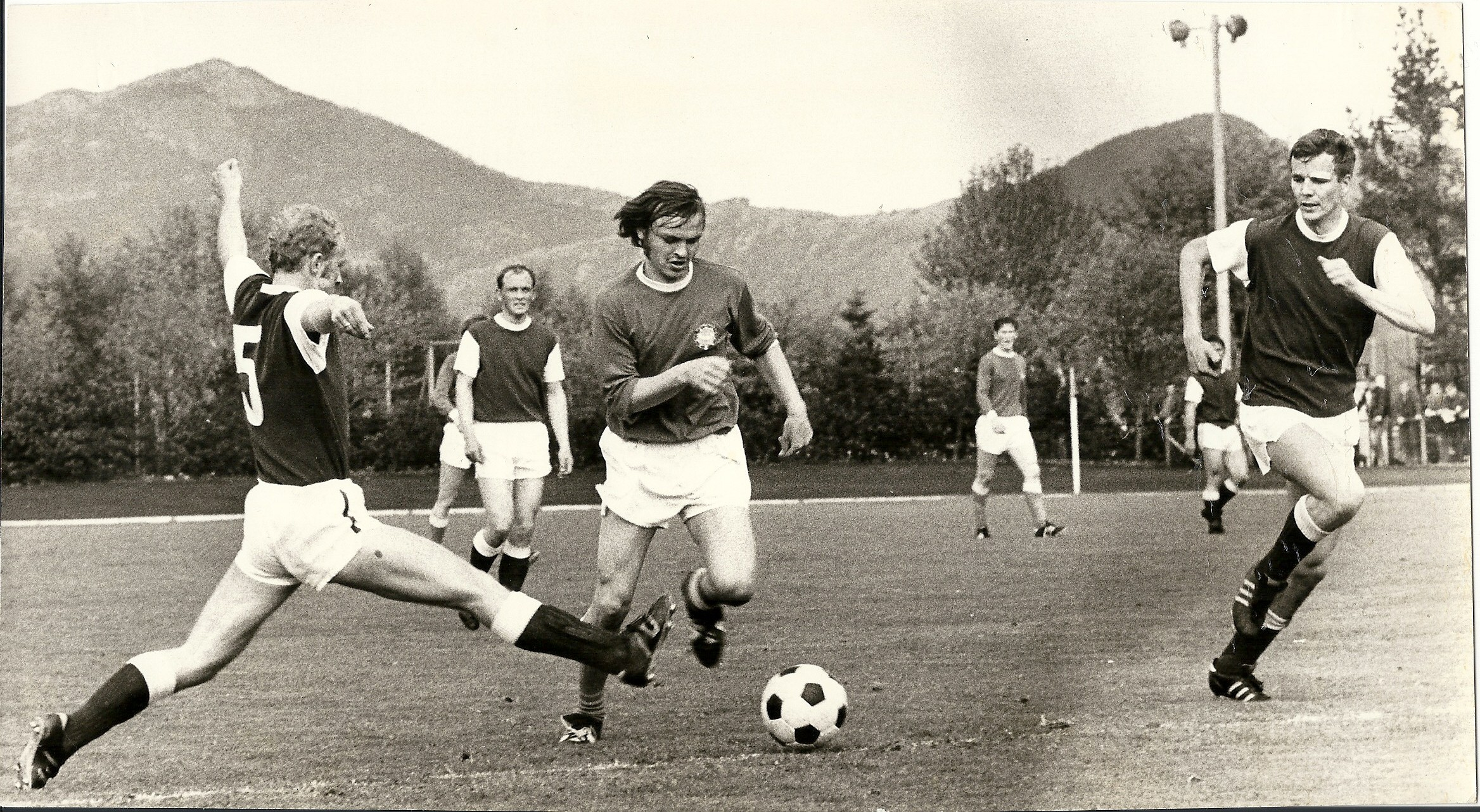 Rune Svarstad, midfielder of Ulf, versus Mjøndalen in 1970 at Sandnes stadium.